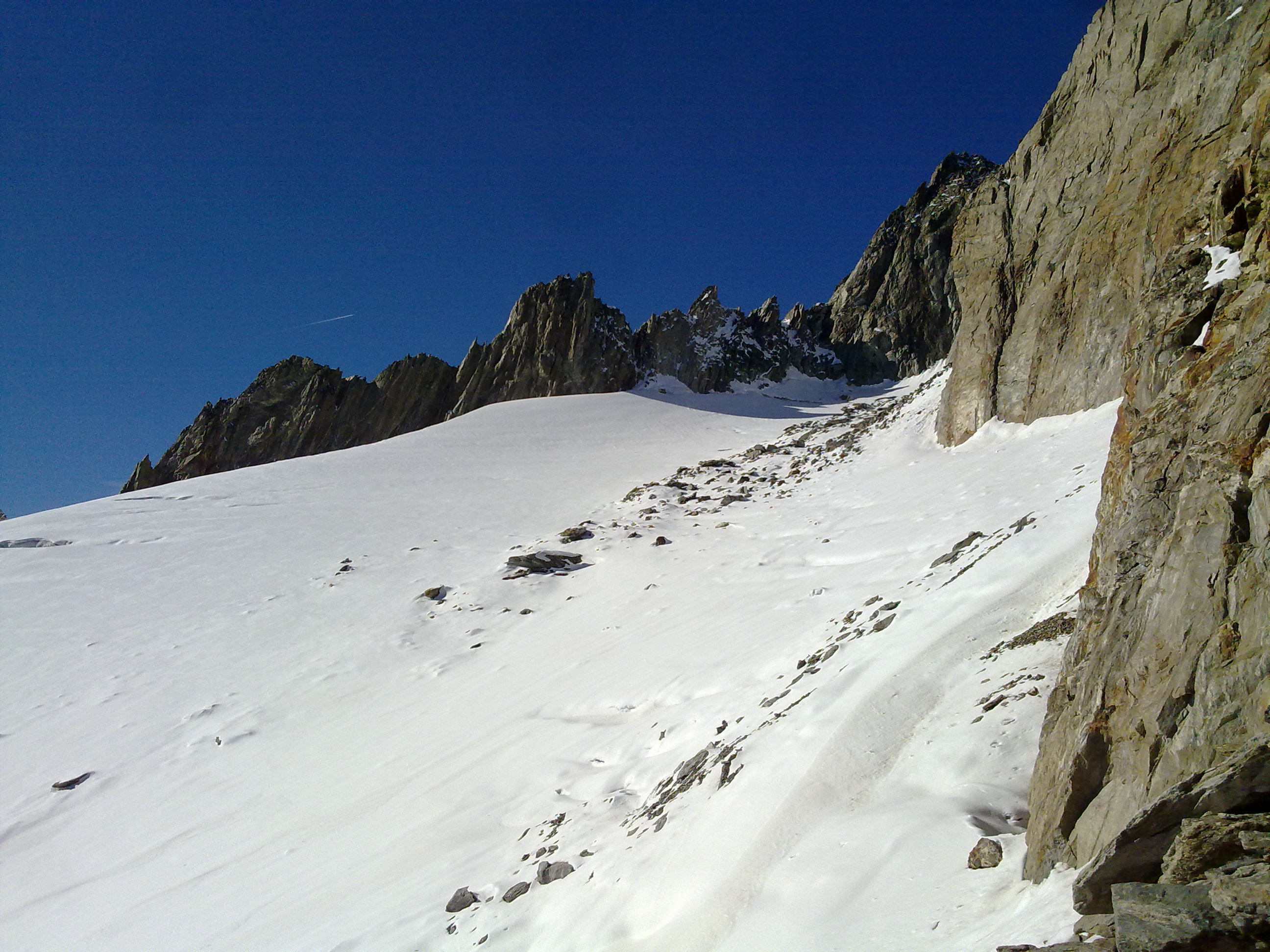 The Unterbächhorn (right summit) and the Unnerbächgletscher (glacier on the left) above Belalp (Valais).